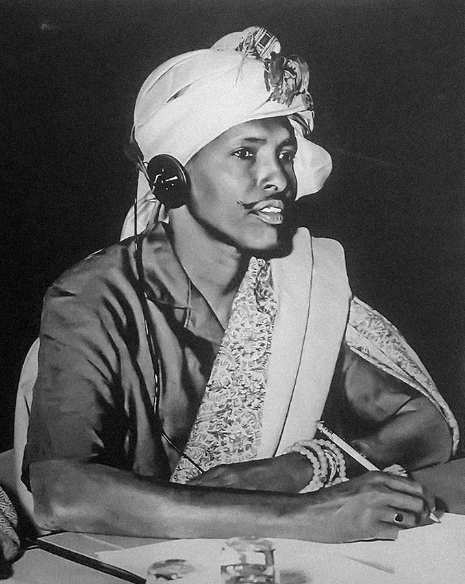 Portrait of Musa Haji Ismail Galal, a Somali writer, scholar, linguist, historian and polymath notable for his contribution to the creation of the Somali Latin script.